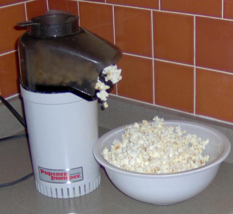 Popcorn Pumper